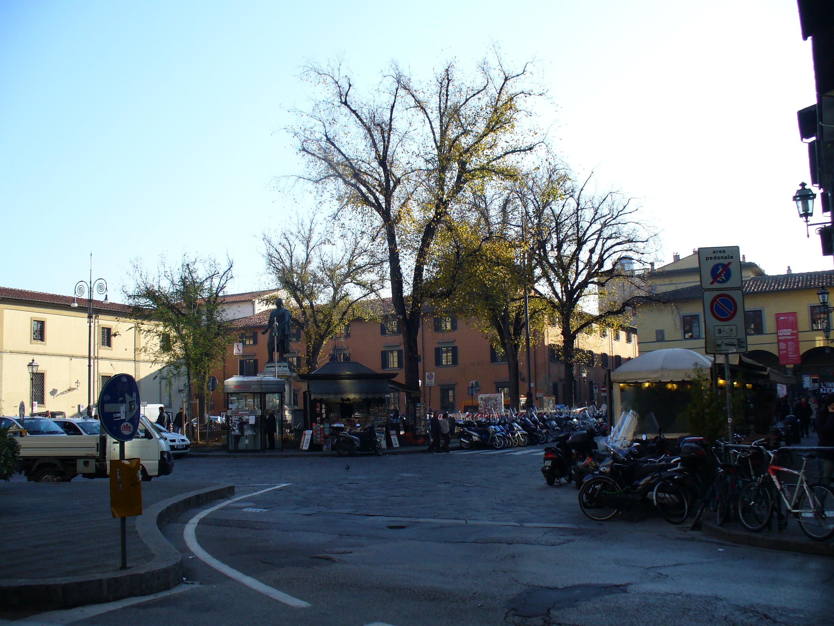 Piazza San Marco (Florence)